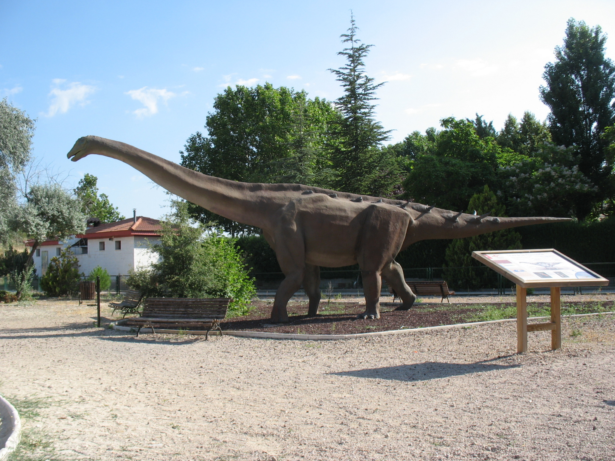 Lohuecotitan pandafilandi titanosaur model in Fuentes (Cuenca, Spain). Based on the fossil remains found in Lo Hueco paleontological site, in the same municipality.